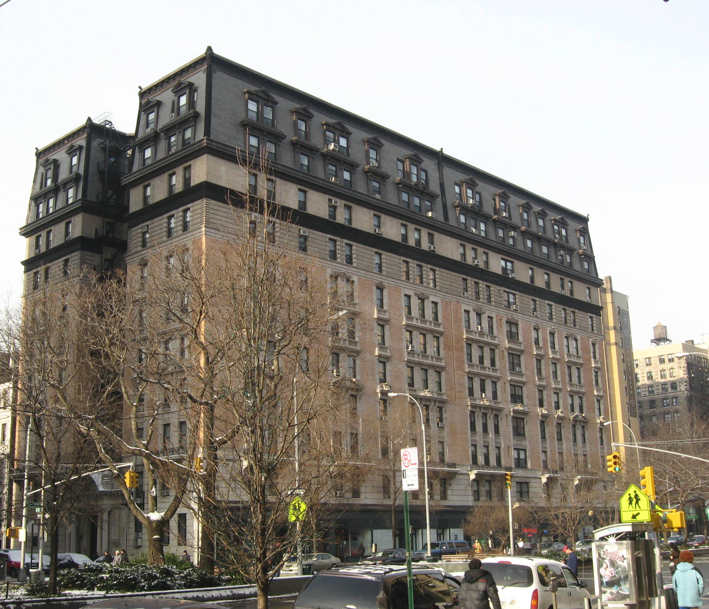 Looking northwest across Broadway and West 108th Street at the Manhasset Apartments on a mostly cloudy midday.